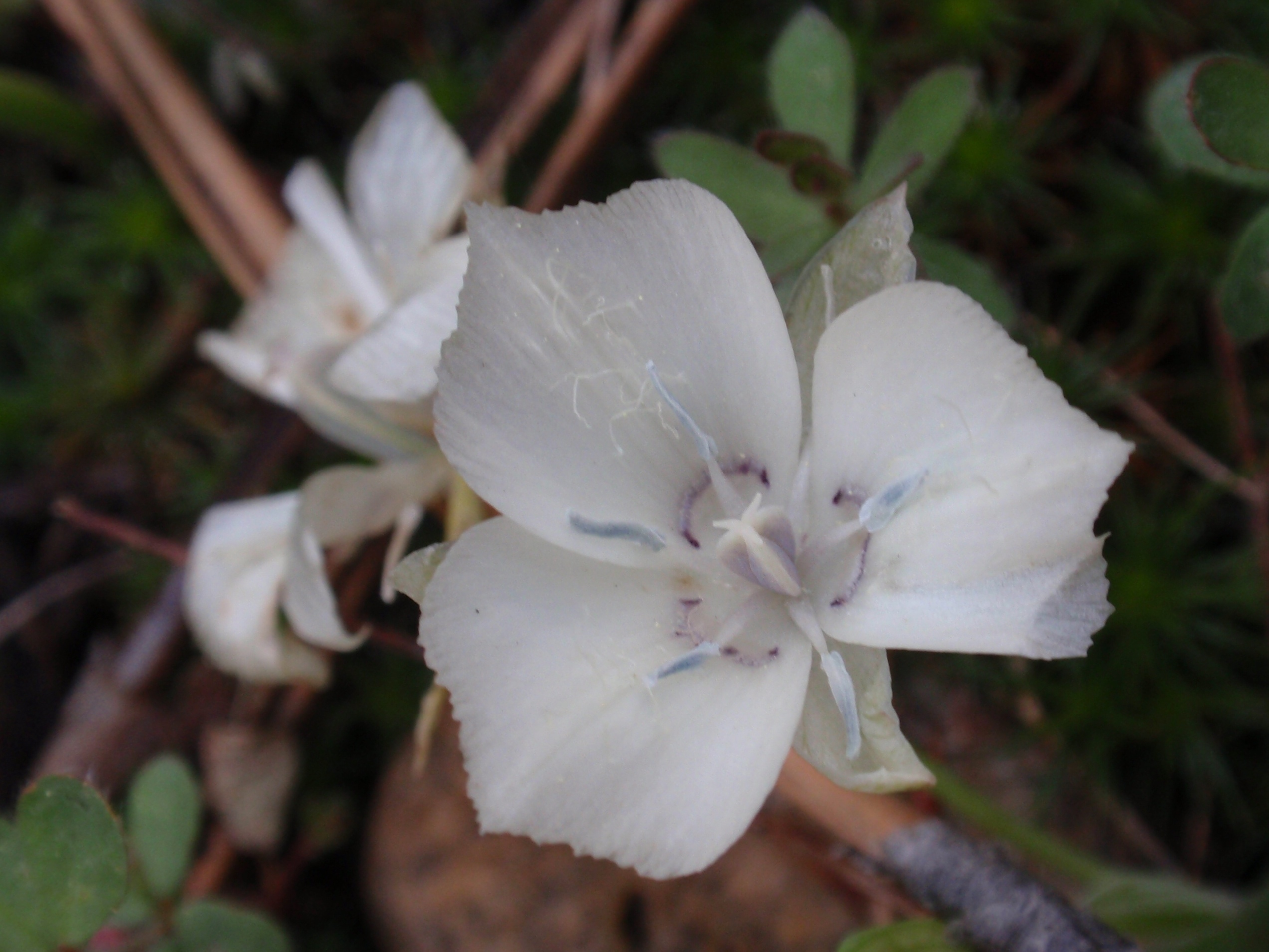 Calochortus minimus along Isberg Trail in Ansel Adams Wilderness, California, USA.